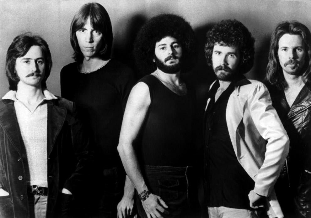 Promotional photo of the US rock group Boston. From left: Barry Goudreau, Tom Scholz, Sib Hashian, Brad Delp, Fran Sheehan.